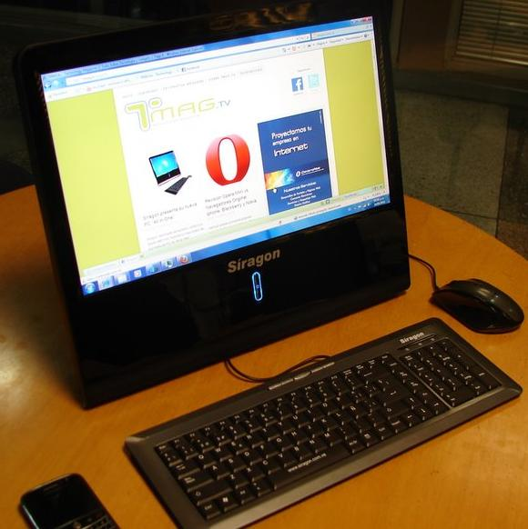 Siragon Touchscreen computer/ LED television made by Siragon Electronics corporation of Venezuela.